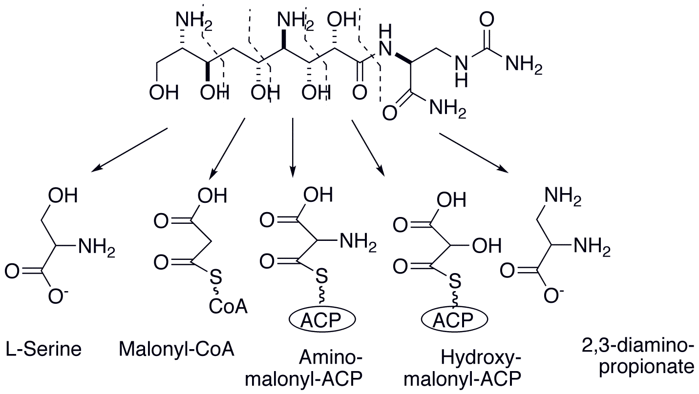 Breakdown of the units in the Zwittermicin A molecule